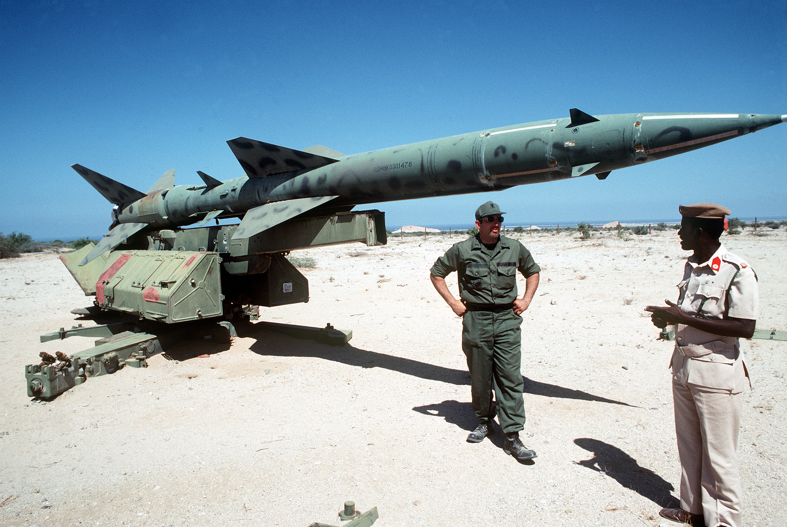 A soviet-built S-75-SAM (NATO-Code: SA-2 Guideline) on its launch pod.